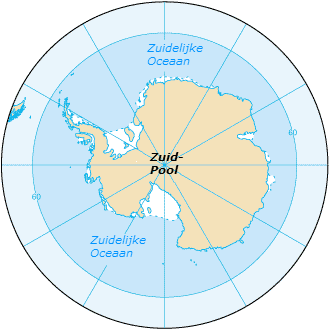 NL- South pole